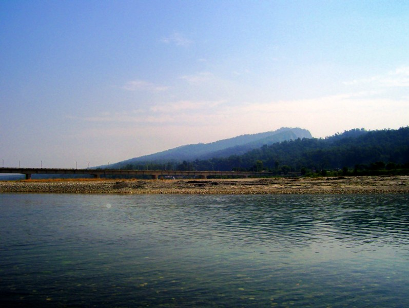 This is a view of the Tons river, a tributary of River Yamuna, Flowing by the sides of Paonta Sahib, Himachal Pradesh.